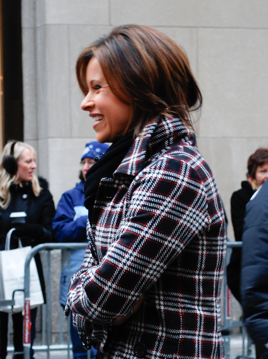 Jenna Wolfe chatting with people